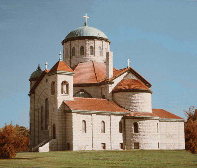 It was a hot August afternoon in 1995 when a lone arsonist set fire to All Saints Church in Stuart, Iowa. In a matter of hours the rare Byzantine-style church, a local landmark, was engulfed in flames. Declaring rage for the Catholic Church, the arsonist claimed that his destructive act aimed to "take the heart and soul out of a small Catholic community." Stuart's heart and soul was anything but weakened. A decade and a half later, Project Restore — the nonprofit group formed to salvage and reinstate the structure — is well on its way to reaching its goal of restoring Historic All Saints and creating a cultural center and a center for religious tolerance.